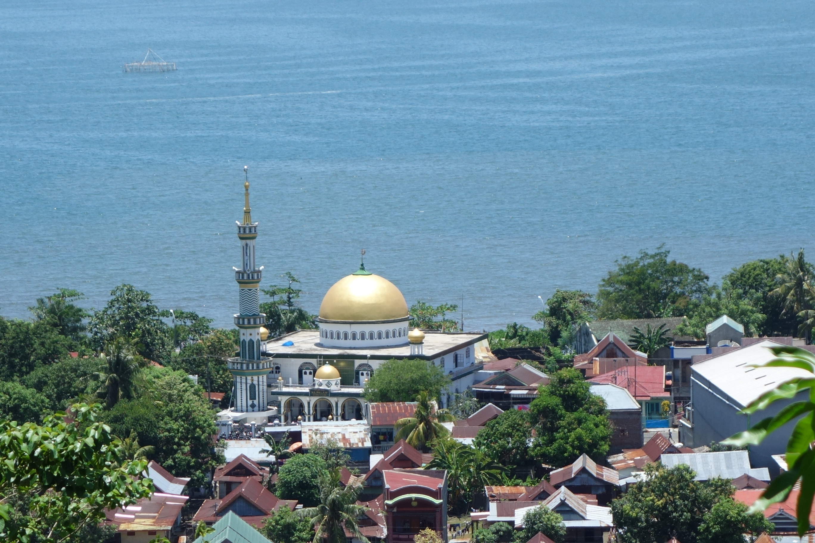 A distant overall view of the town of Pare-Pare (South Sulawesi, Indonesia)